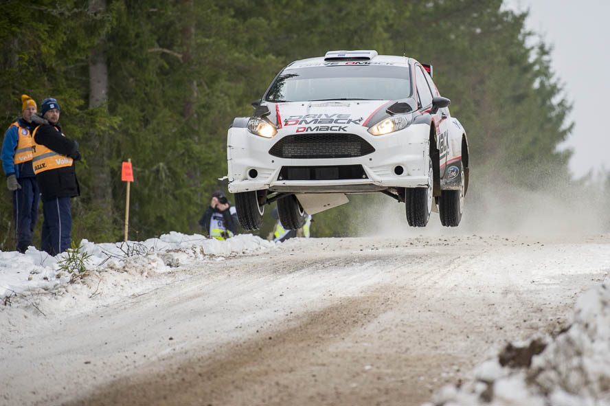 Rally Sweden 2014 Drive Dmack,Ford Fiesta R5,Jari Ketomaa,Kaj Lindström,Motorsport,Rally,Rally Sweden,Rallye,Rallye Schweden,Shakedown